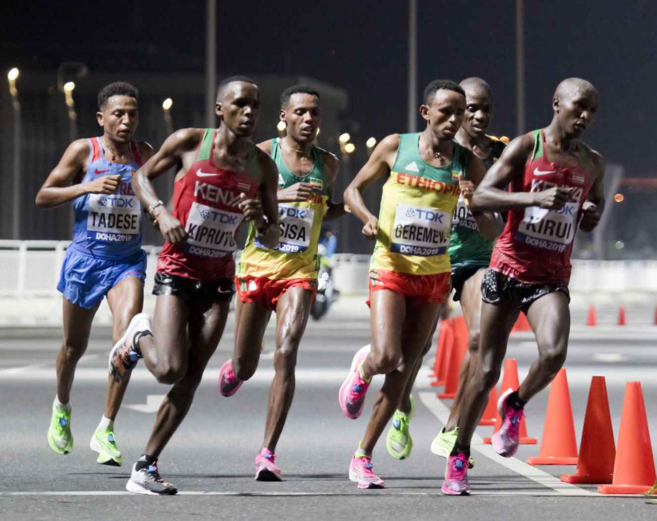 Men's marathon at the 2019 World Athletics Championships in Doha.